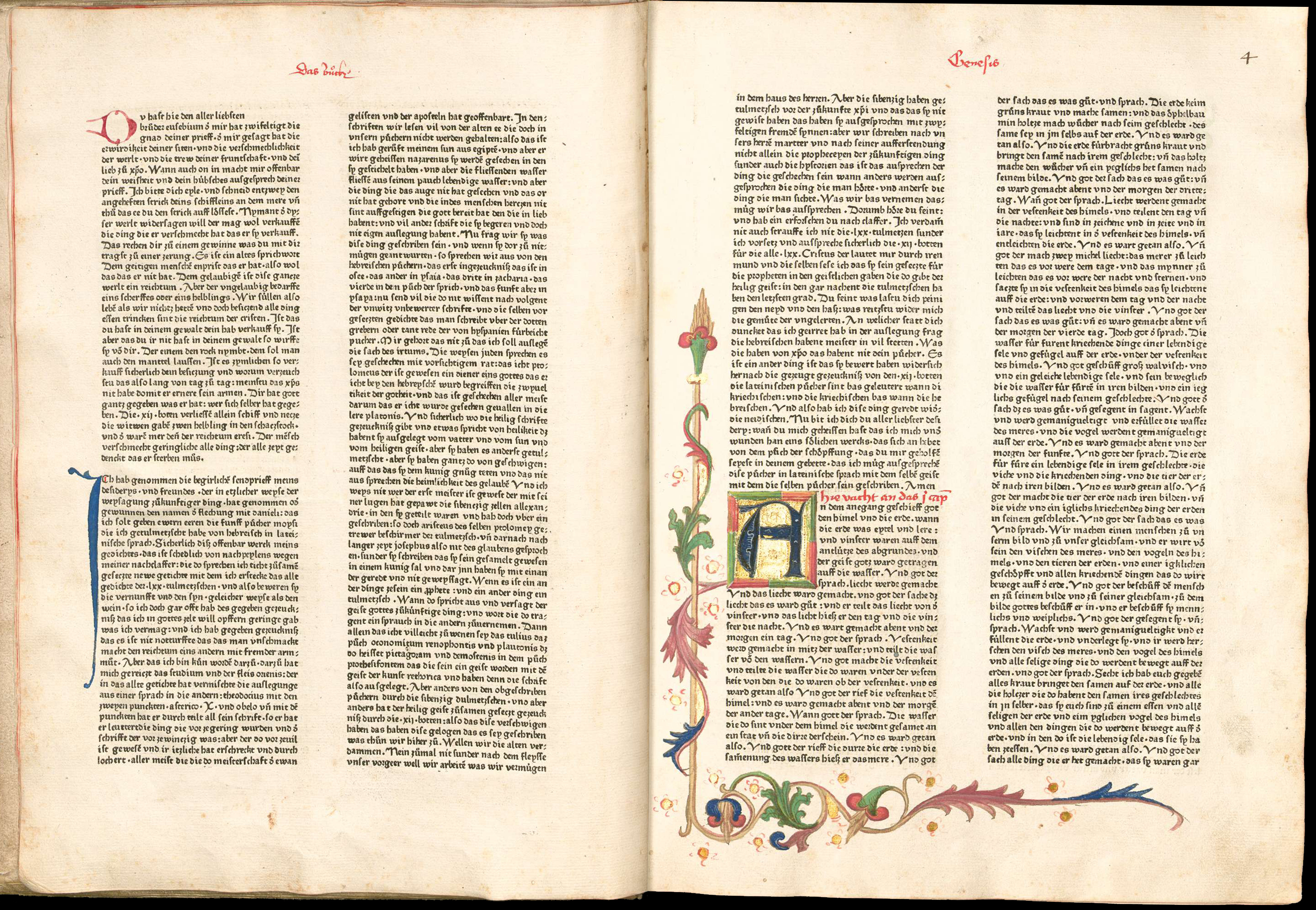 Spread of the Mentelin Bible of 1466, copy of the Bayerische Staatsbibliothek.